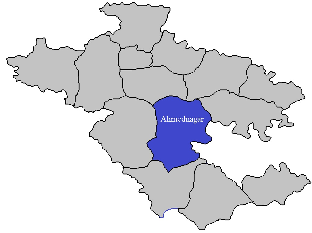 Ahmednagar Tehsil in Ahmednagar District